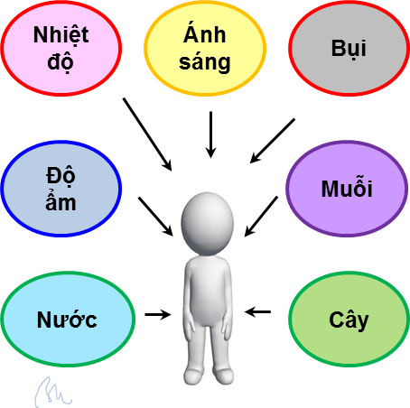 Ecological factors are factors in the environment affecting the body.